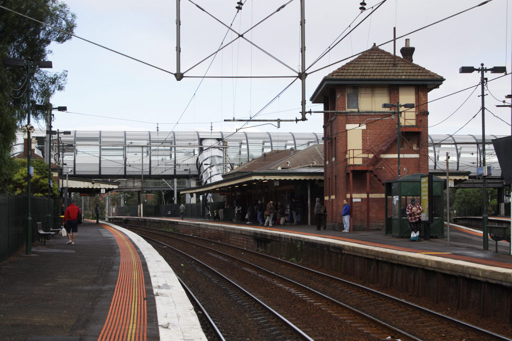 View from platform 4 at Footscray railway station, Melbourne. Looking in the down direction towards platform 3. In the background is the footbridge that provides access to the platforms, as well as a disused signal box.